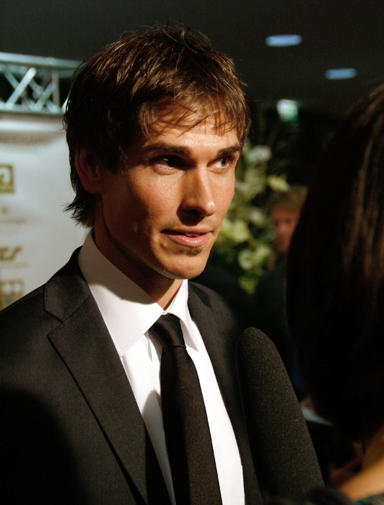 Felix Gottwald at the presentation of the Austrian Sportspersonalities of the Year 2010 (Eventhotel Pyramide in Vösendorf, Lower Austria).